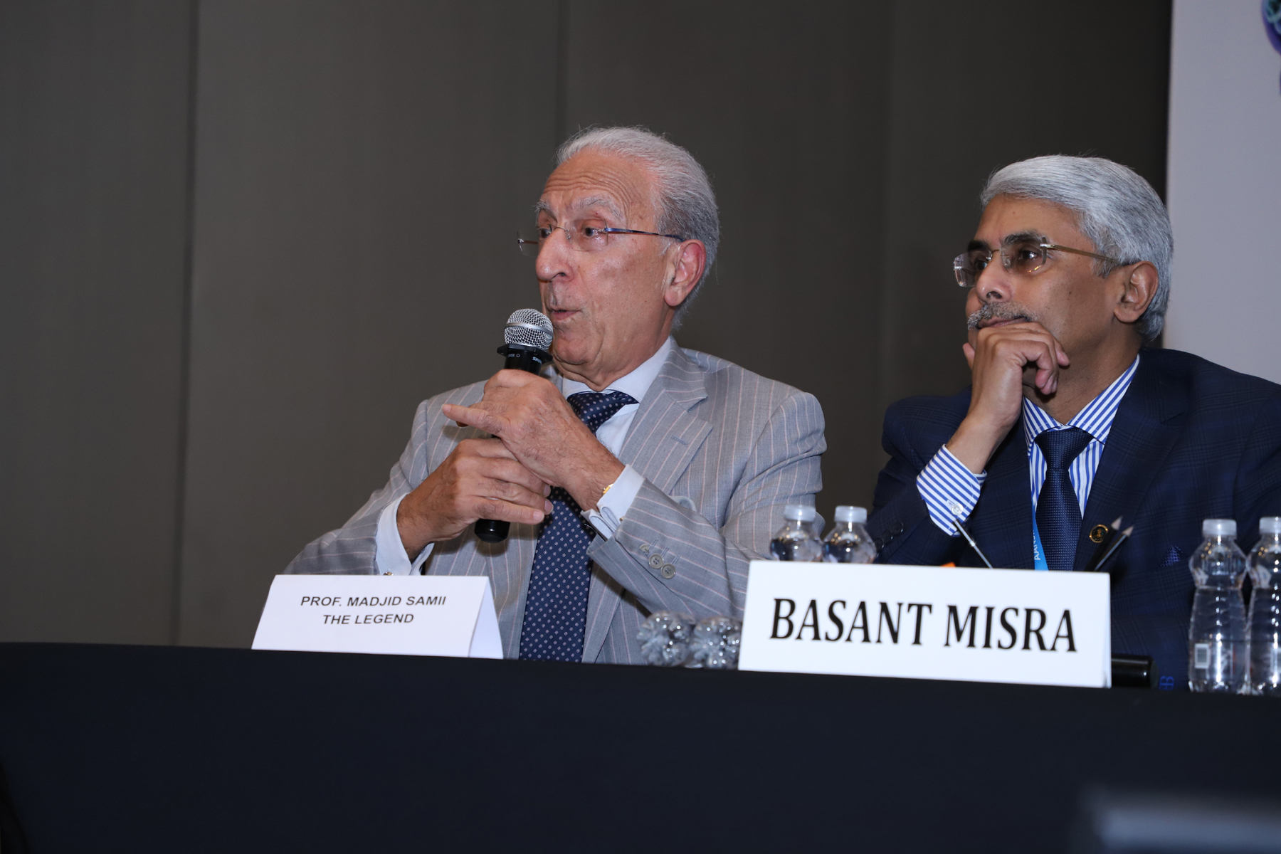 Majid Samii at the 15th Asian Australasian Congress of Neurological Surgeons, 68th Annual Conference of The Neurological Society of India, and the International Meningioma Society Congress, in Mumbai